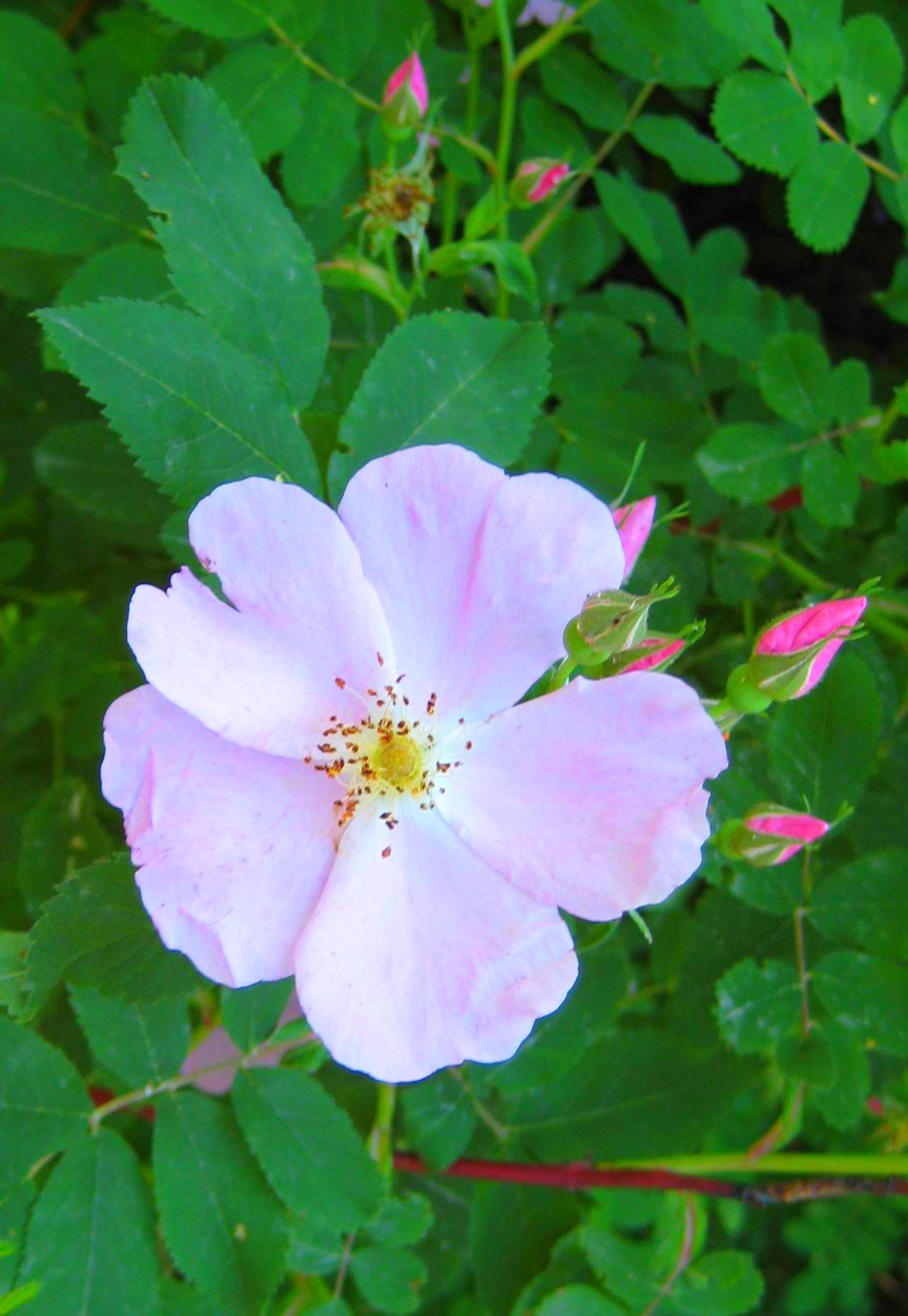 Rosa acicularis, AKA Wild Rose, the Prickly Rose, or the Arctic Rose